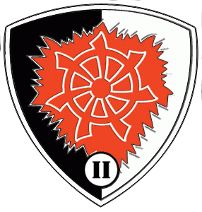 Logo II KOOPSAU Indonesian Air Force